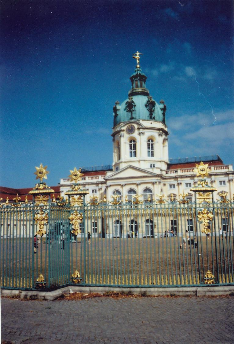 Schloss Charlottenburg. Photograph taken by User:Angr in summer 1997.